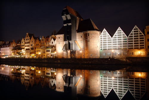 Żuraw Gate in the Main Town of Gdańsk